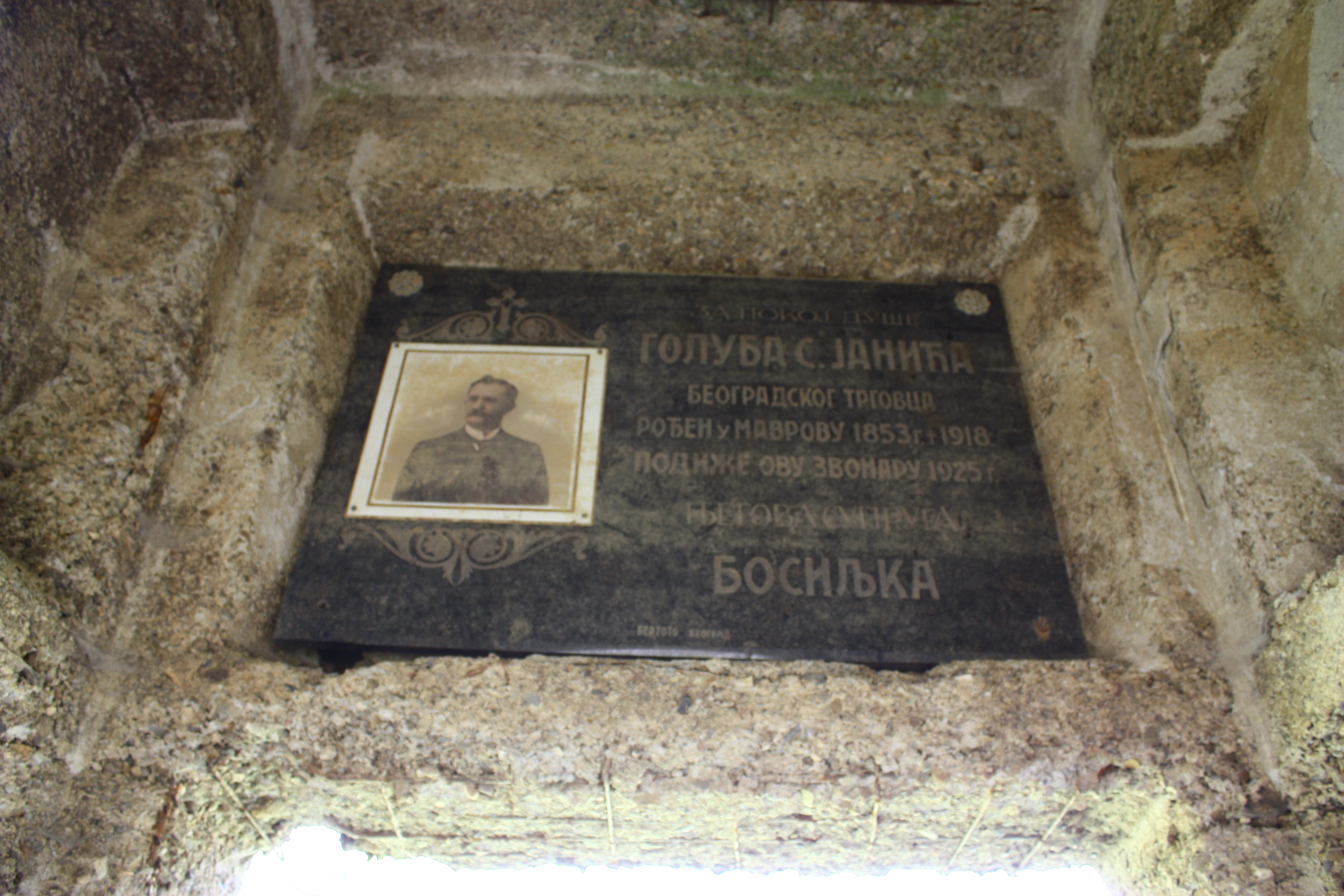 The submerged church of St. Nicholas in Mavrovo, Macedonia